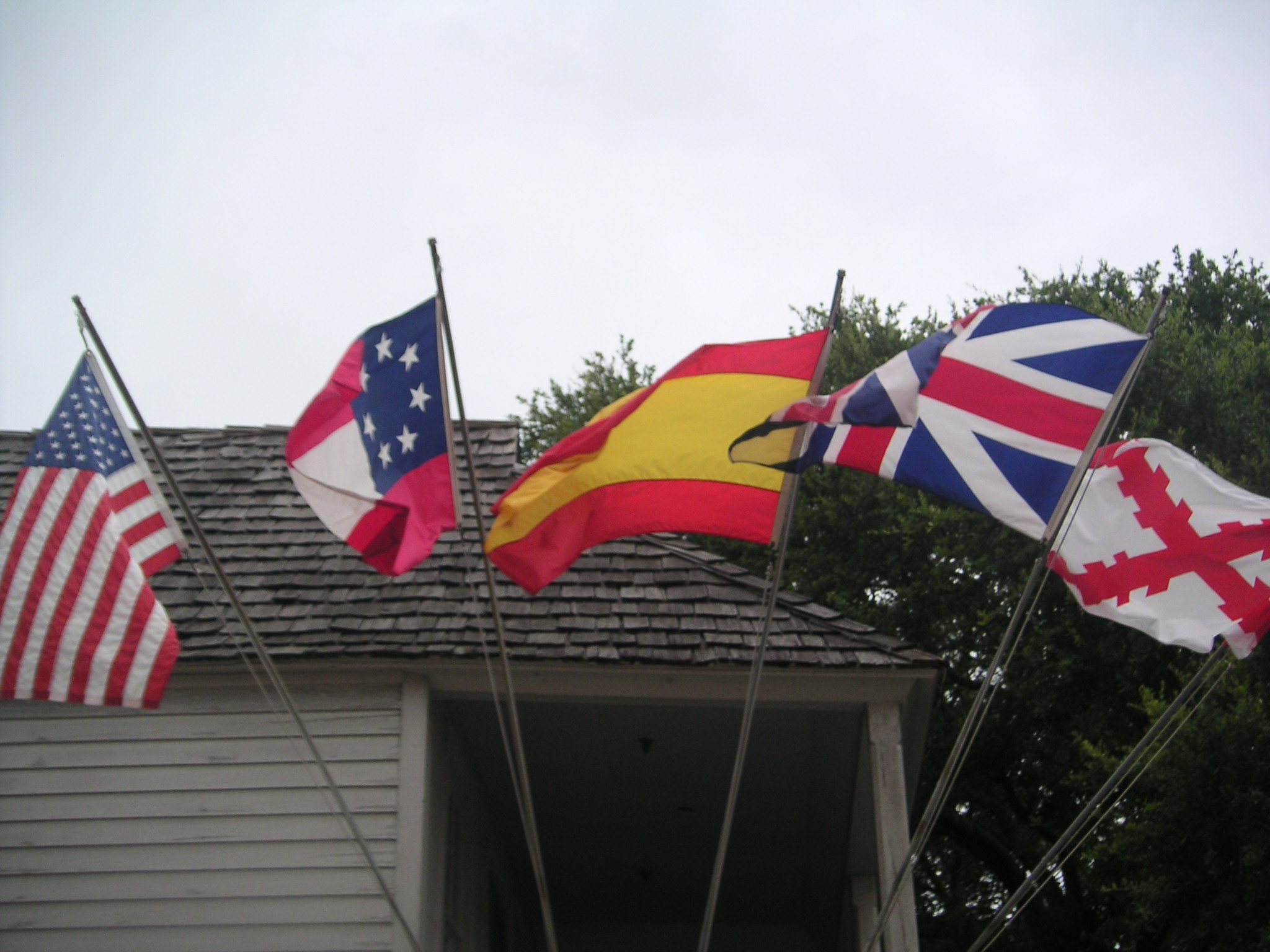 The five flags that flew over St. Augustine, Florida. Taken by me in historic St. Augustine on August 7, 2004.